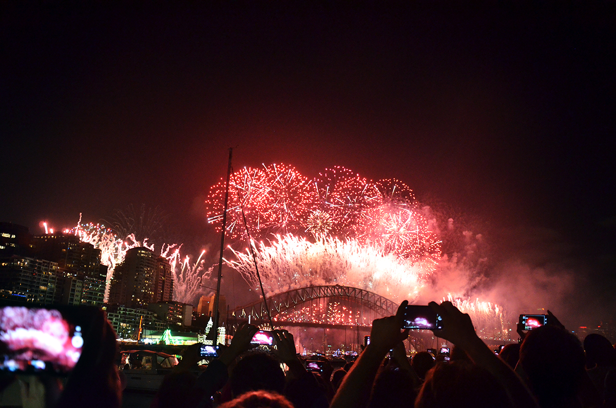 Sydney new year eve fireworks 2016